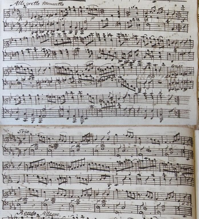 Page from the Minuetto / Trio Piano Sonata in B-flat major, held at the Skara Library.